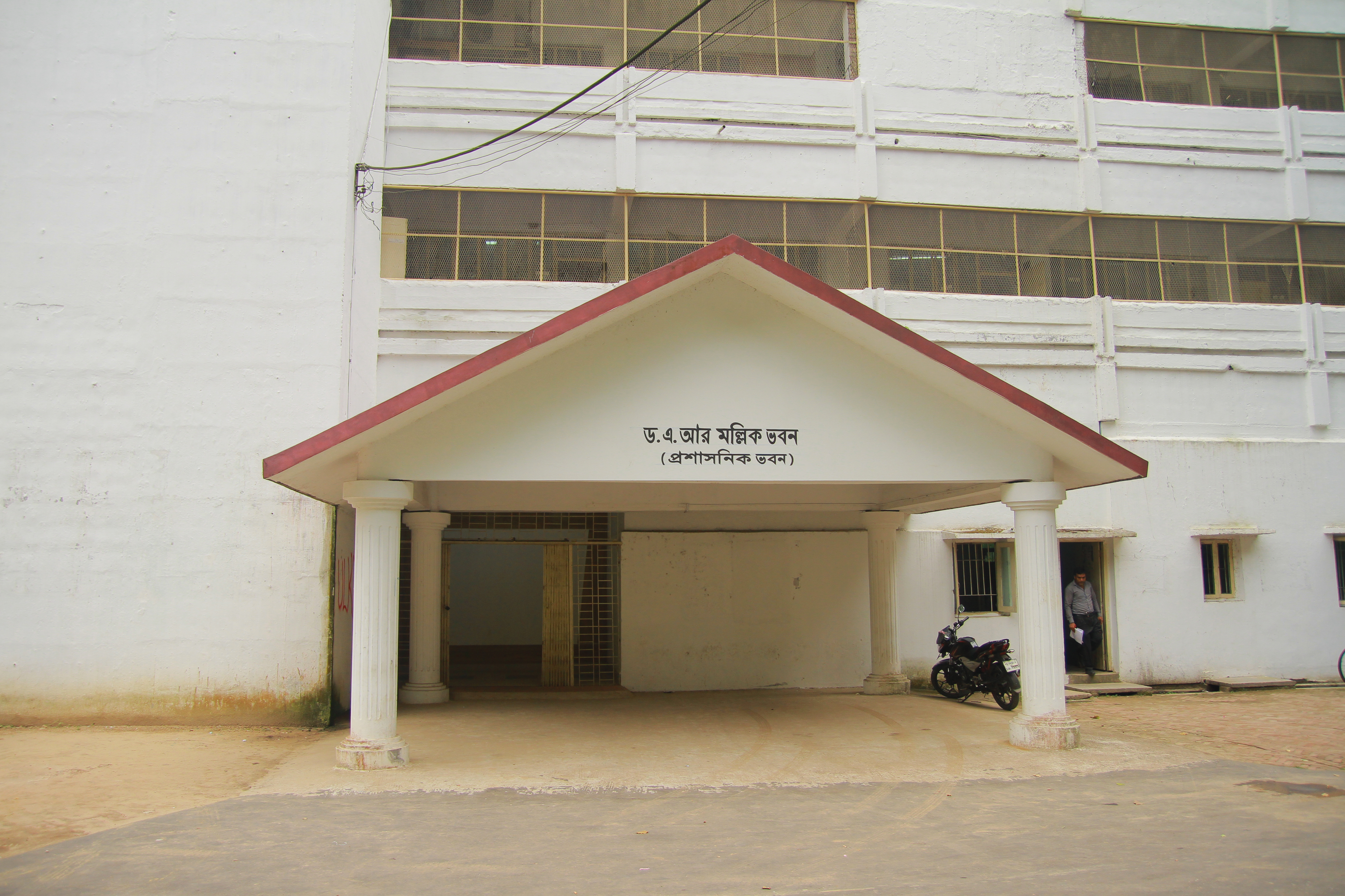 Dr. A R Mallick (administrative) building, University of Chittagong, Chittagong.